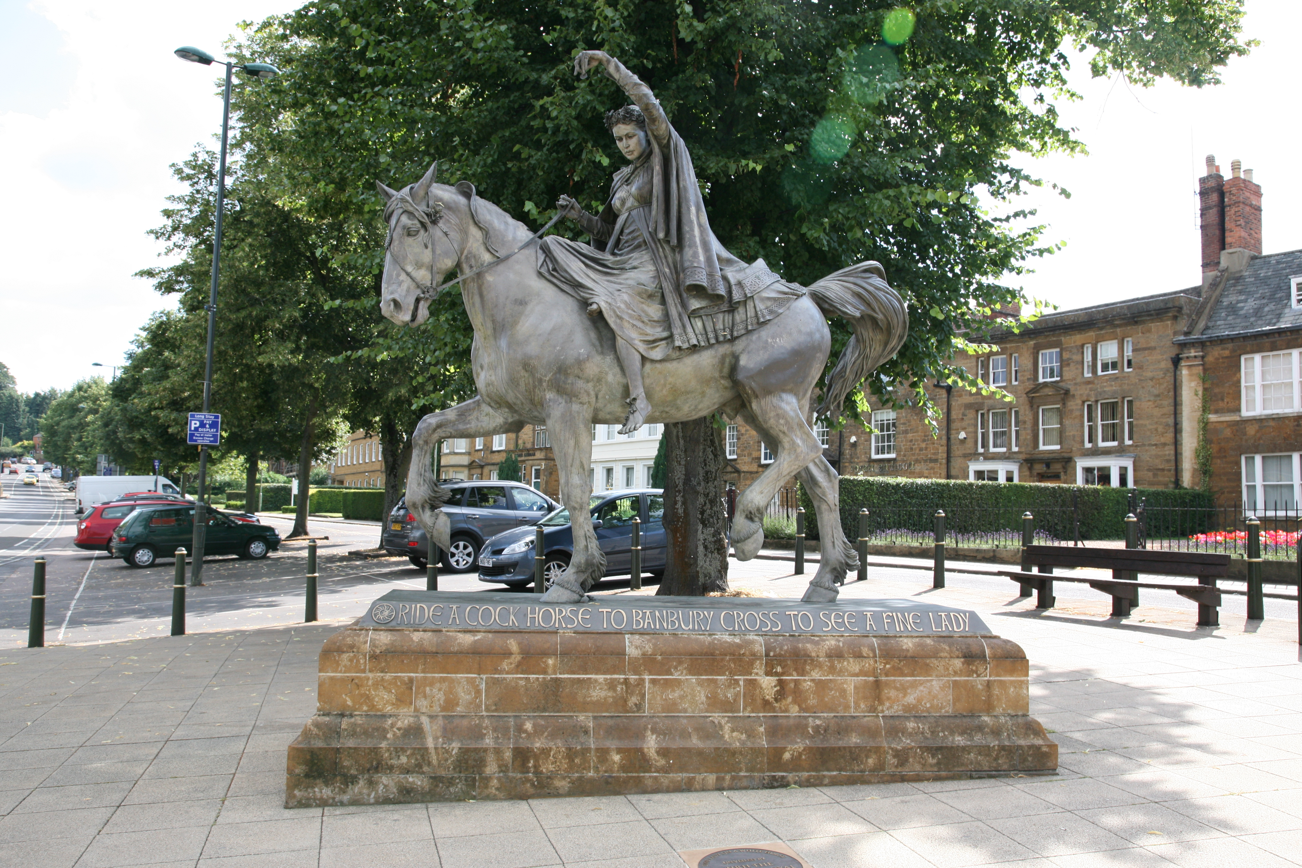 A statue at Banbury Cross in the UK. The statue is of the "Fine Lady upon a White Horse" from the old nursery rhyme. Photo was taken by Stratford490. More information about this statue can be found here.